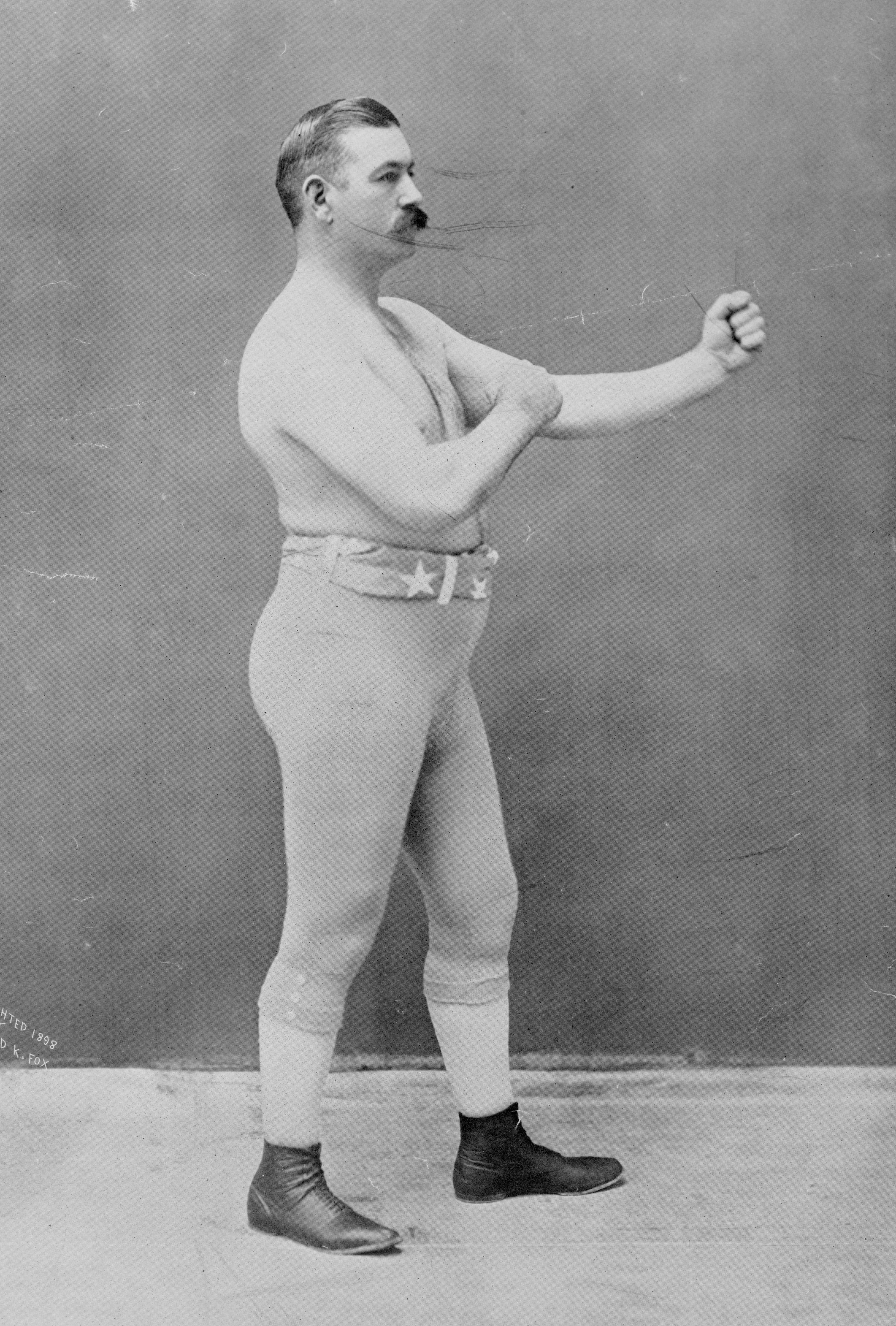 John L. Sullivan. Library of Congress description: "The champion of all champions--'Hoping to deserve your appreciation, I remain yours truly - John L. Sullivan'. Illus. from: Supplement to Police Gazette, vol. LXXII, no. 1078, Saturday April 23d, 1898."